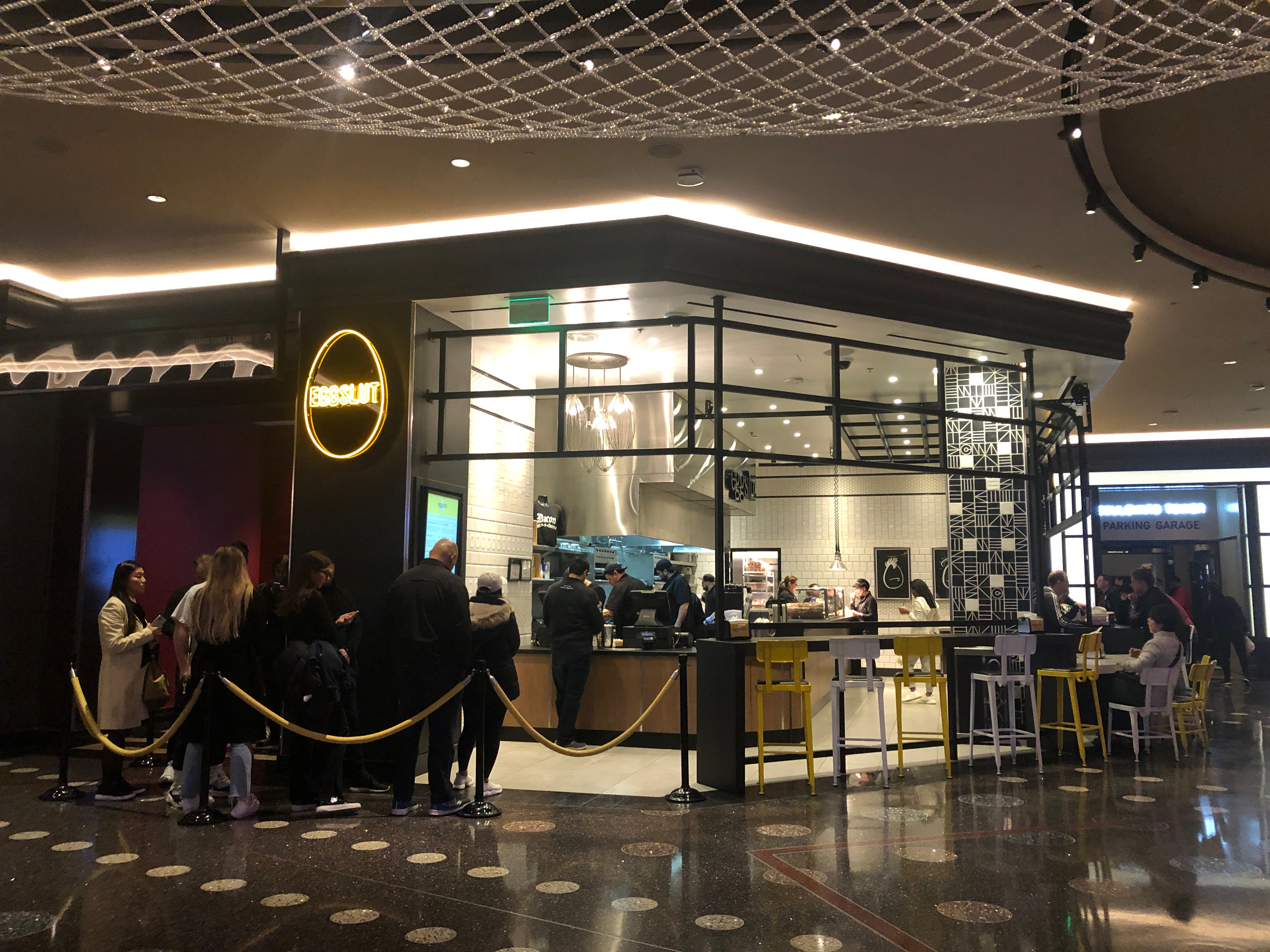 Eggslut at the Cosmopolitan in Las Vegas, Nevada